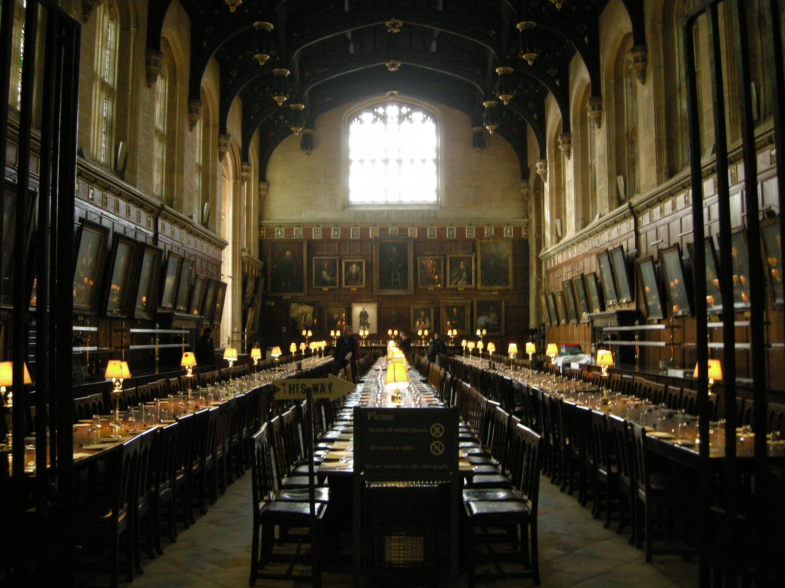 Christ Church, the hall